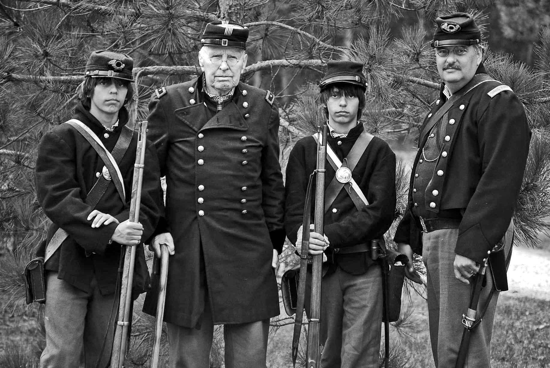 Four Tenth Michigan Volunteer Infantry reenactors. Left to right: Thomas William Rowley, 15. Norman Oscar Rowley, 90. David Leland Rowley, 15. David Scott Rowley 47.